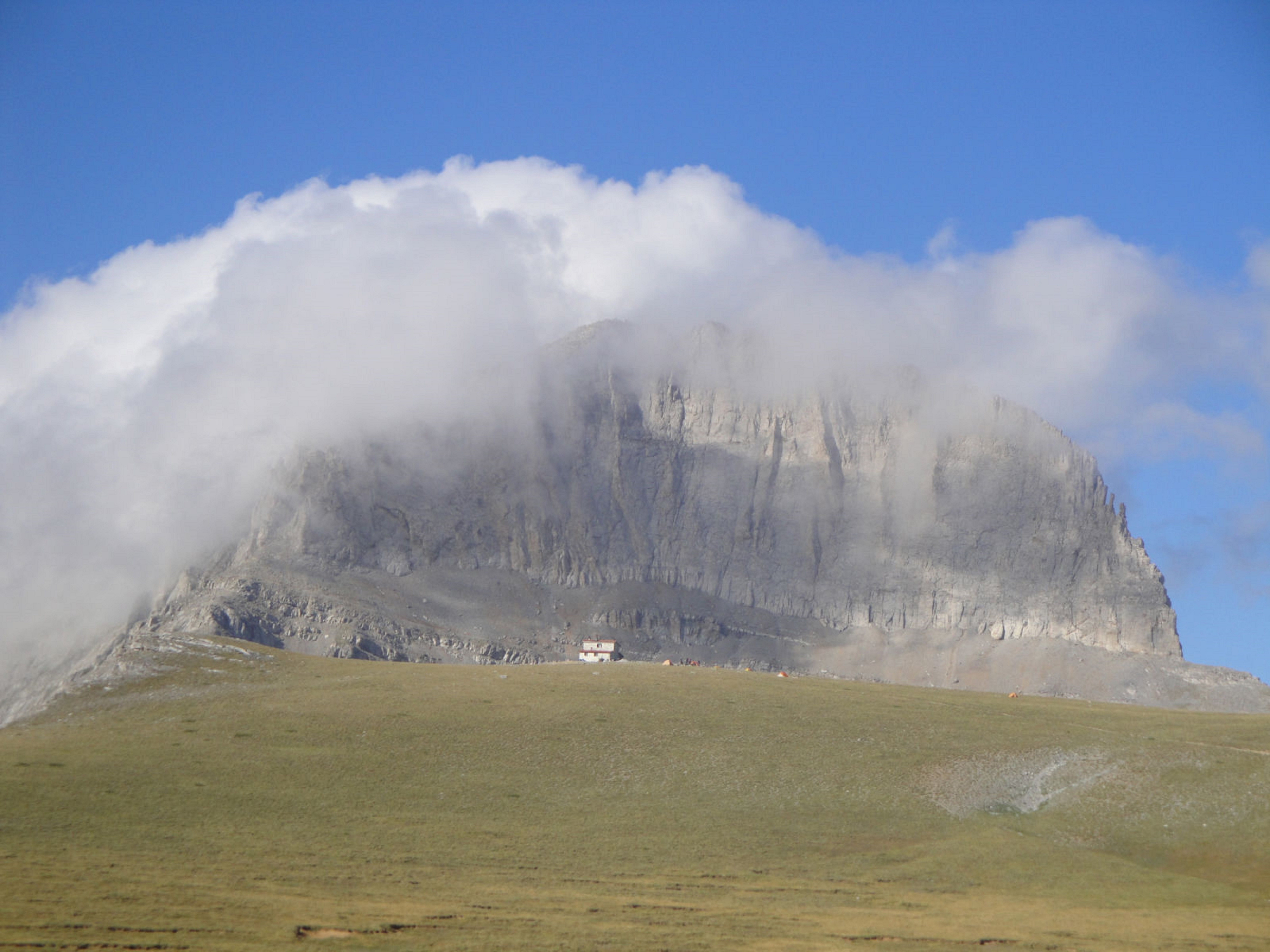 This is a photography of Natura 2000 protected area with ID GR1250001